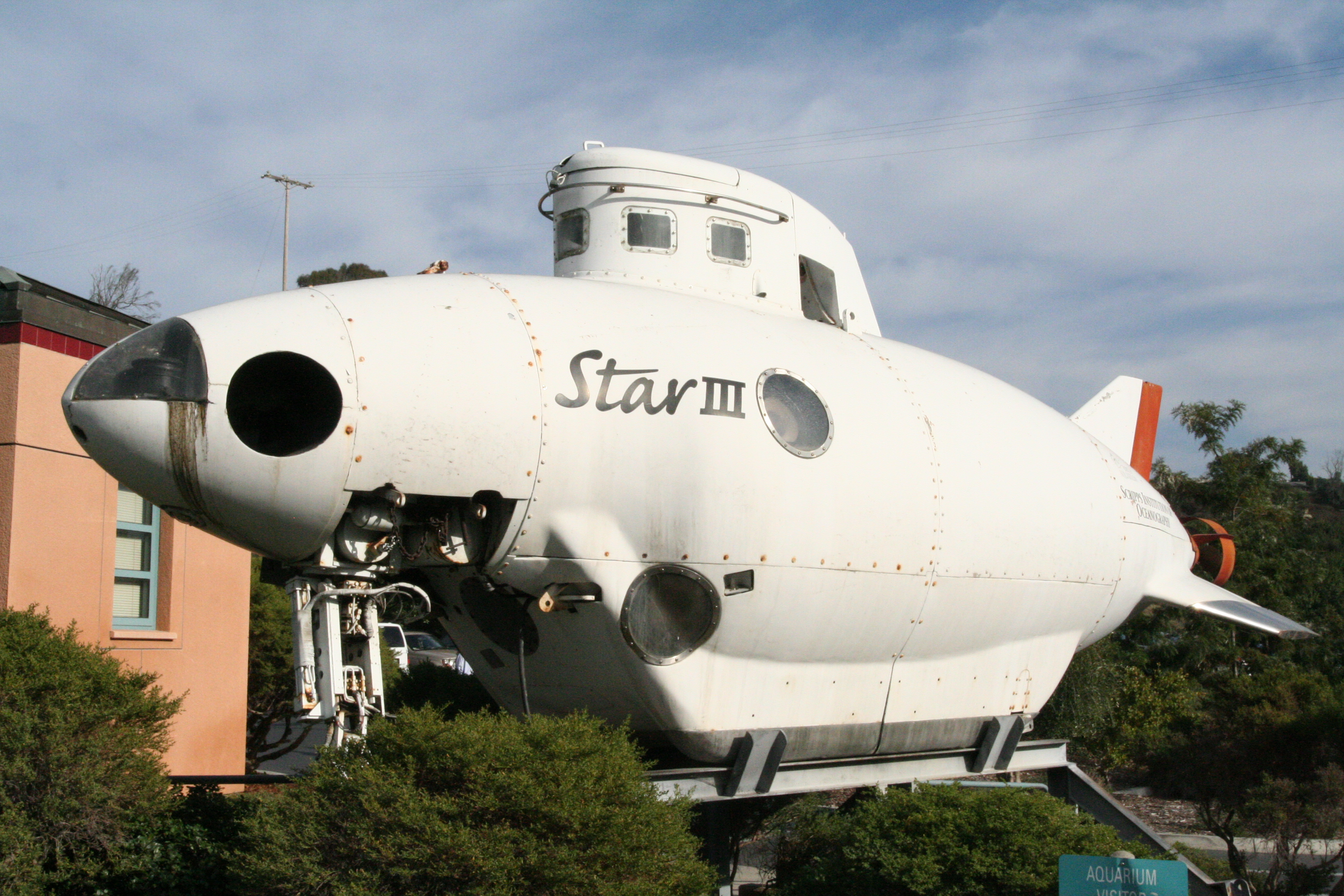 Submersible vessel, Star III, in front of Scripps Institution of Oceanography in San Diego, California.